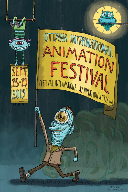 This is the official poster for the 2019 edition of the Ottawa International Animation Festival, an annual animated film and media festival that takes place in Ottawa, Canada.